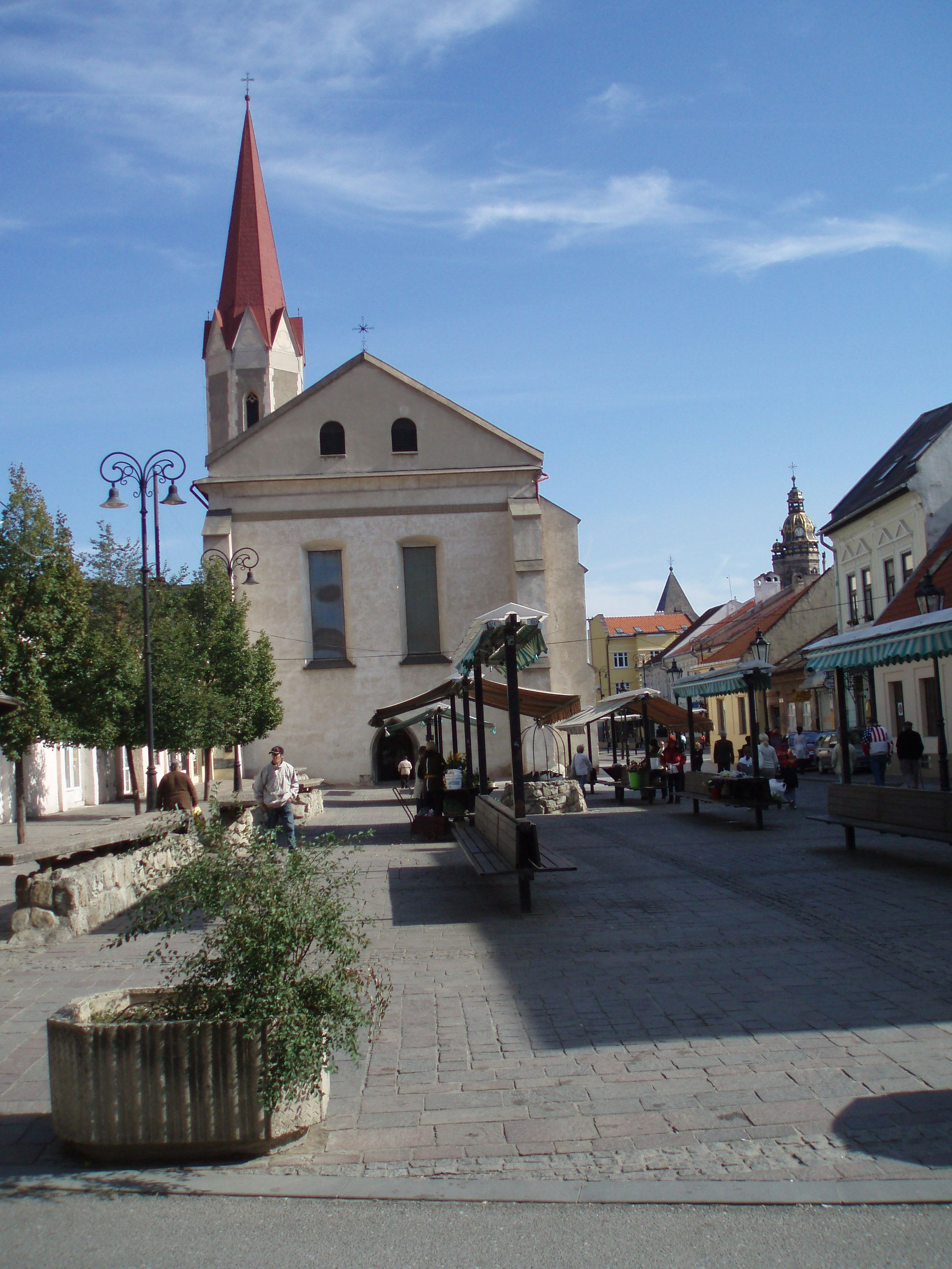 Dominikan Church Košice, Slovakia